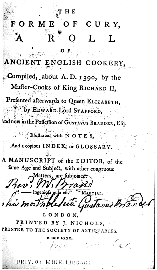 Title page of Pegge's 18th century edition of the "Forme of Cury"